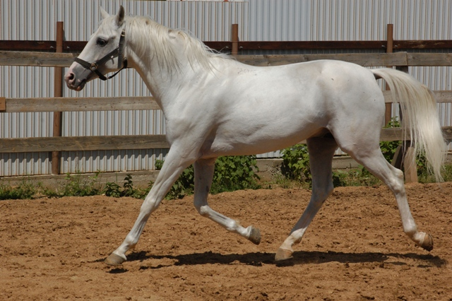 Basilick, Tersk stallion